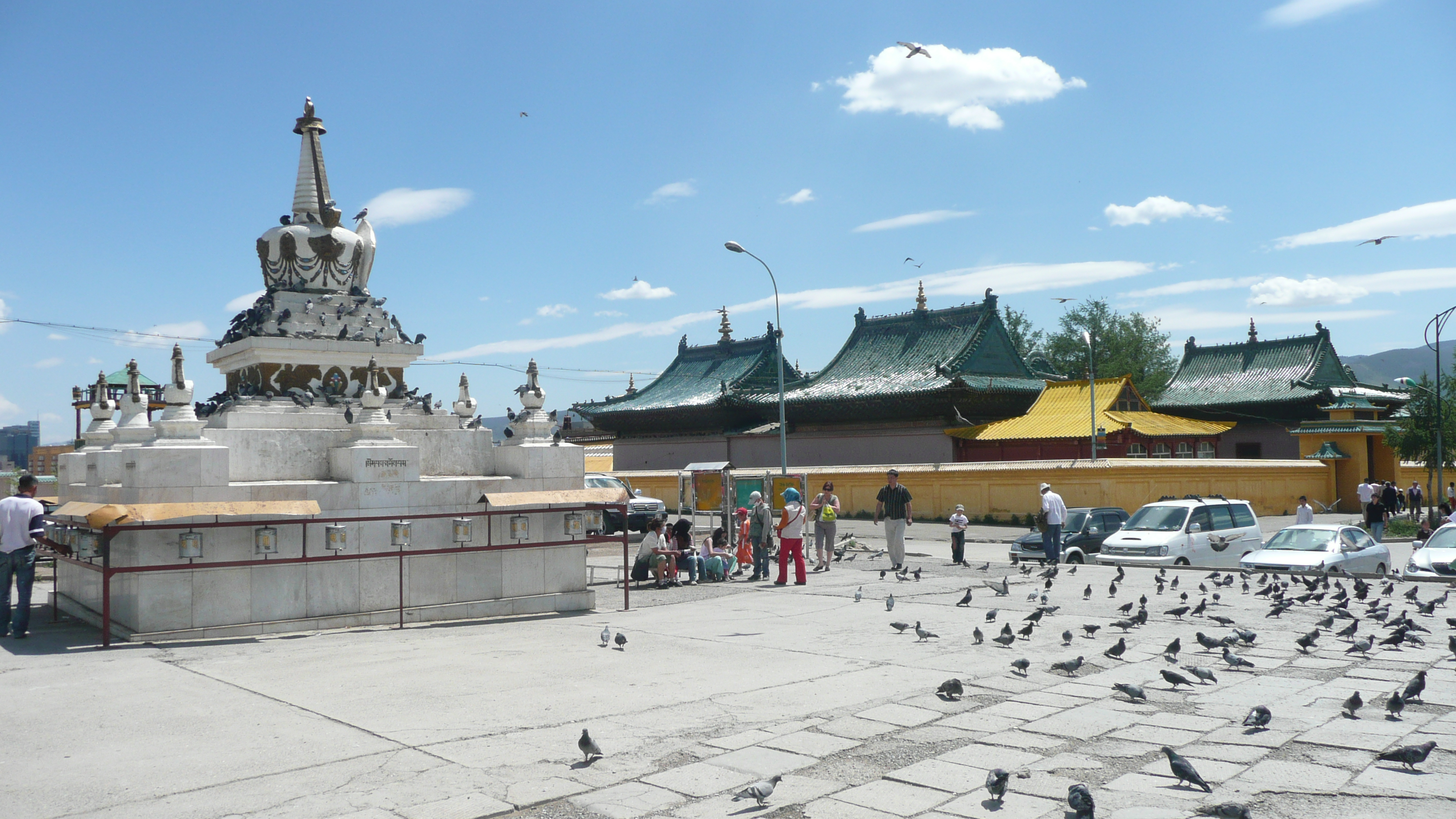 Gandan Monastery in Ulan Bator. Modern stupa. Green temples from left - Zuu temple (1869) and Vajradhara temple (1841) connected by sacristy chamber built in 1945-1946, and the Library temple (1926).